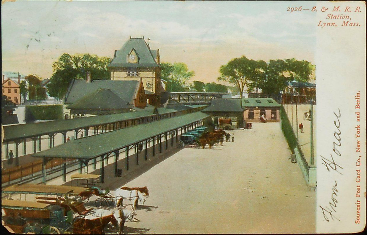 1895-built Lynn station on a 1906 postcard